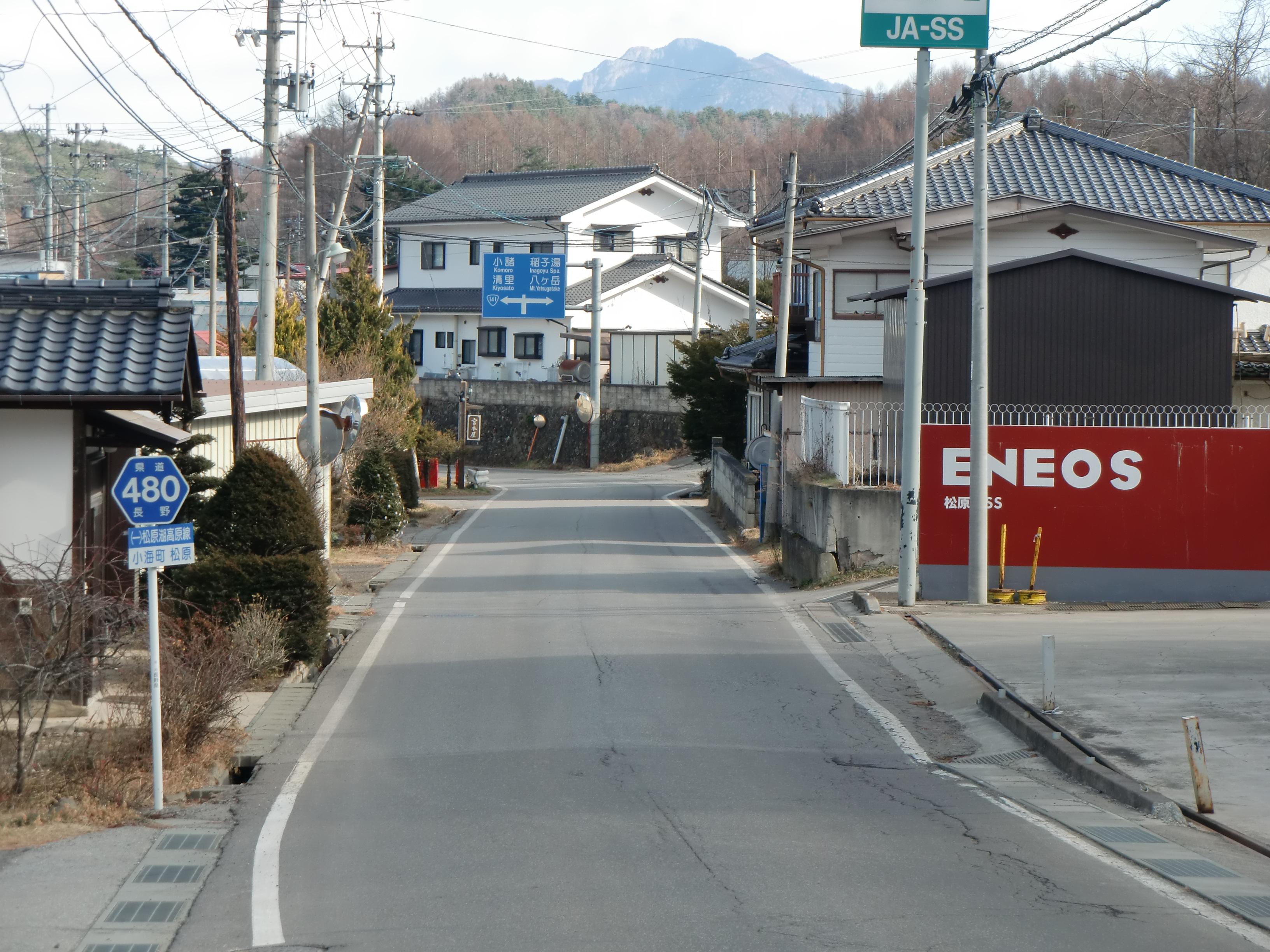 Nagano pref road 480 in Matsubara, Koumi-town, Nagano, JAPAN.